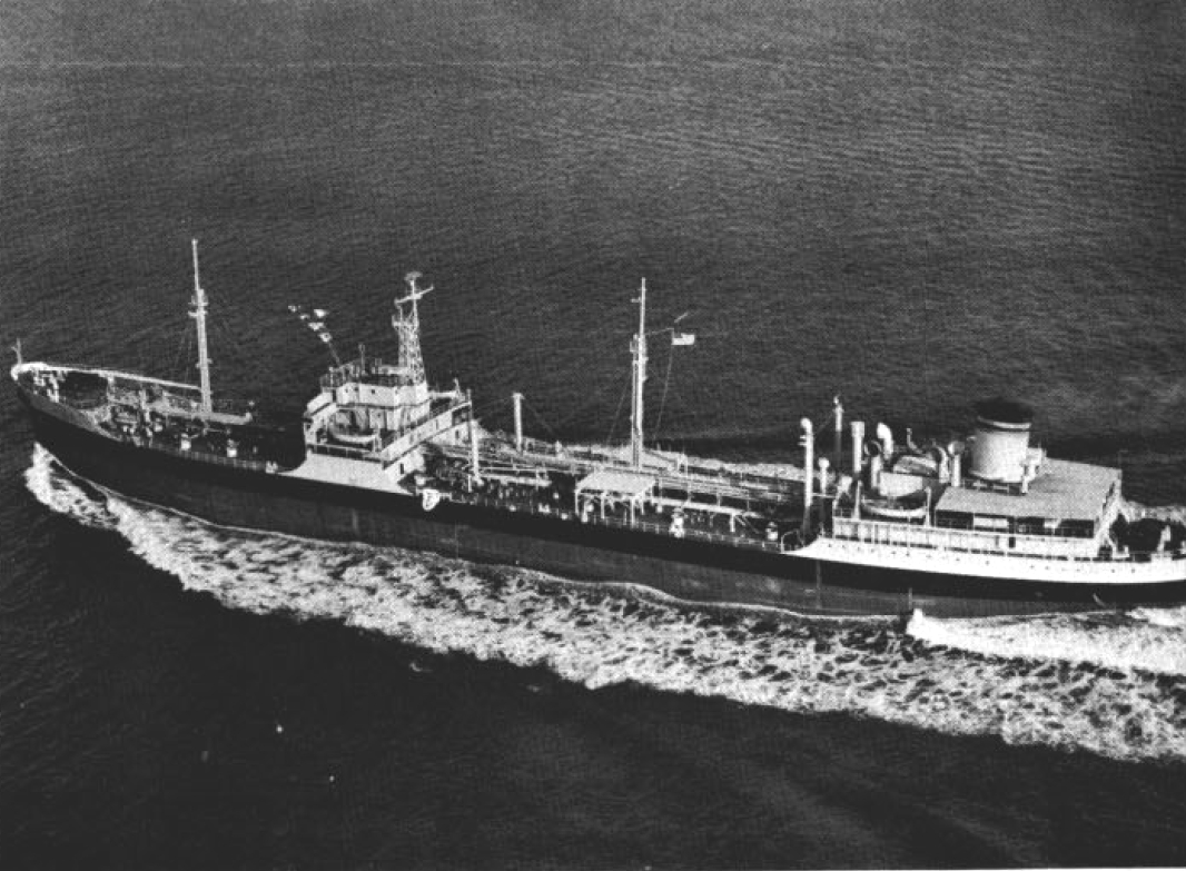 The U.S. Military Sea Transportation Service fleet oiler USNS Tallulah (T-AOT-50) underway in the Caribbean, circa in 1964.